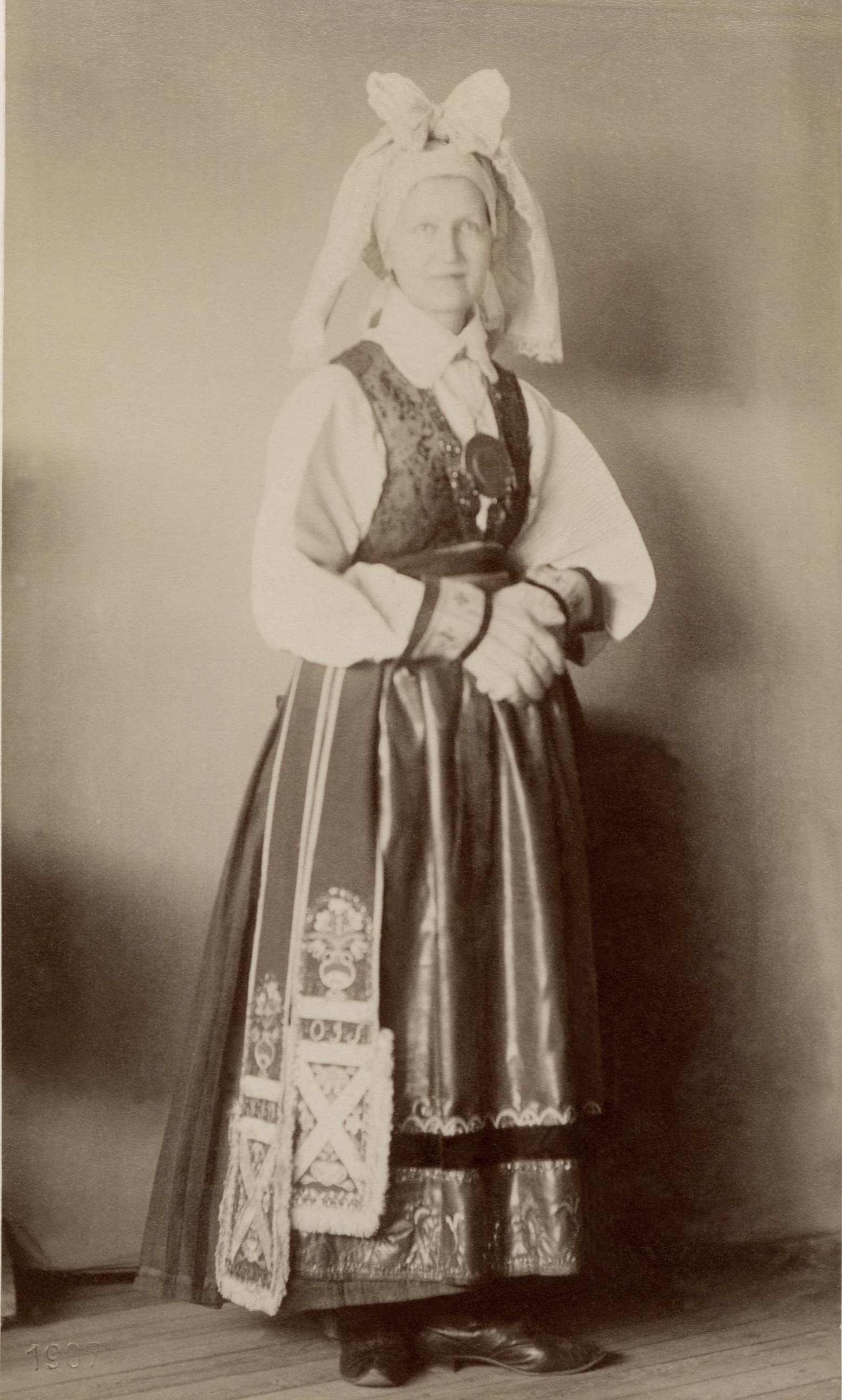 Högtidsdräkt för gift kvinna. Värendsdräkt från Småland.